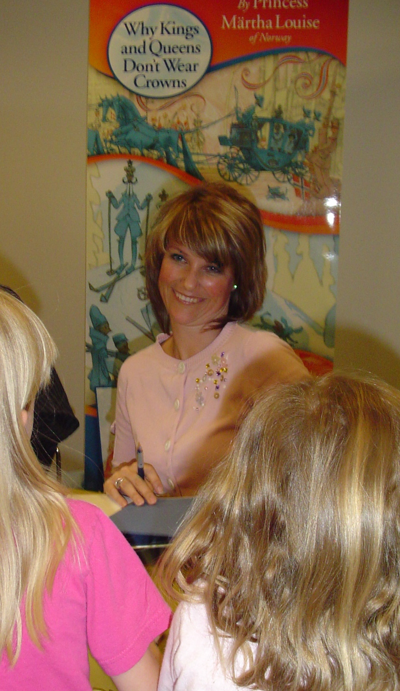 Princess Märtha Louise of Norway is the author of Why Kings and Queens Don't Wear Crowns (2004)". This photograph of her was taken in Minnetonka, Minnesota, USA, on 15 April 2006 at a book signing at Hennepin County's Ridgedale Library. The two children enraptured by her in the front are Asia and Lexie, the photographer's own little princesses. The banner in the background shows illustrations from the book made by Norwegian illustrator Svein Nyhus. Estreya 22:01, 1 June 2006 (UTC)